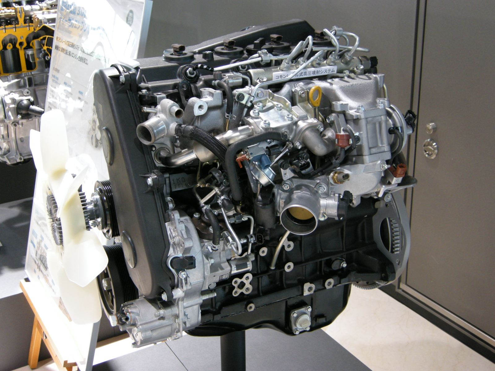 Toyota 1KD-FTV 3.0L Straight-4 DOHC Common rail Diesel Engine